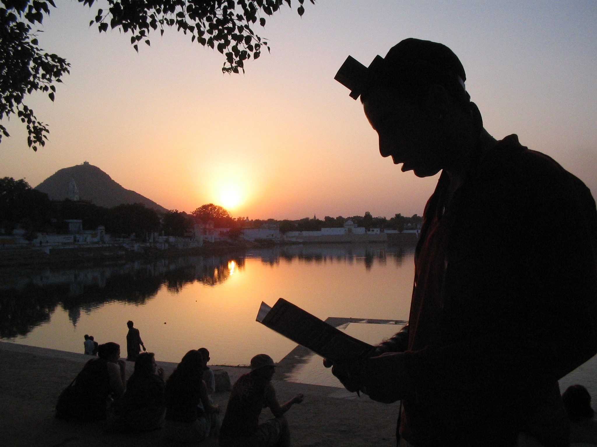 Chabad Lubavitch Hassid,lay Tefillin with Israeli backpacker, at the Chabad house in Pushkar, India.